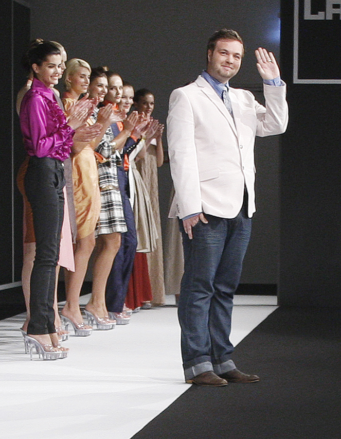 Gregor Clemens, 2009 at the end of his fashion show at the Ellington Hotel Berlin. In the back, models.